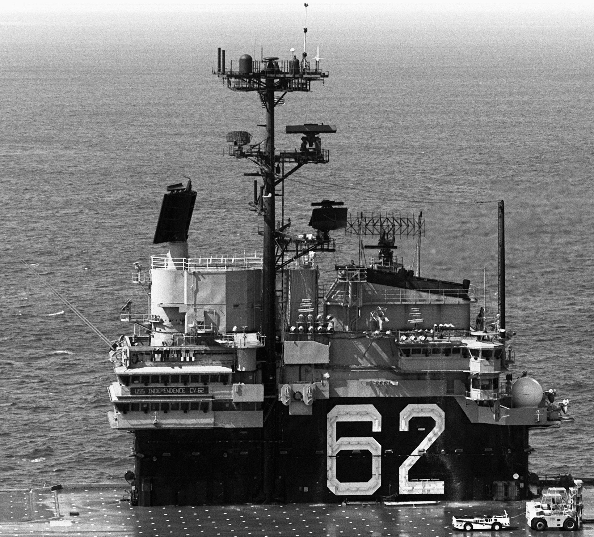 A view of the superstructure and portion of the flight deck of the aircraft carrier USS INDEPENDENCE (CV 62) as the ship is underway. the radars are (l-r): SPS-48, SPS-10, SPS-67, SPS-58, SPS-49.